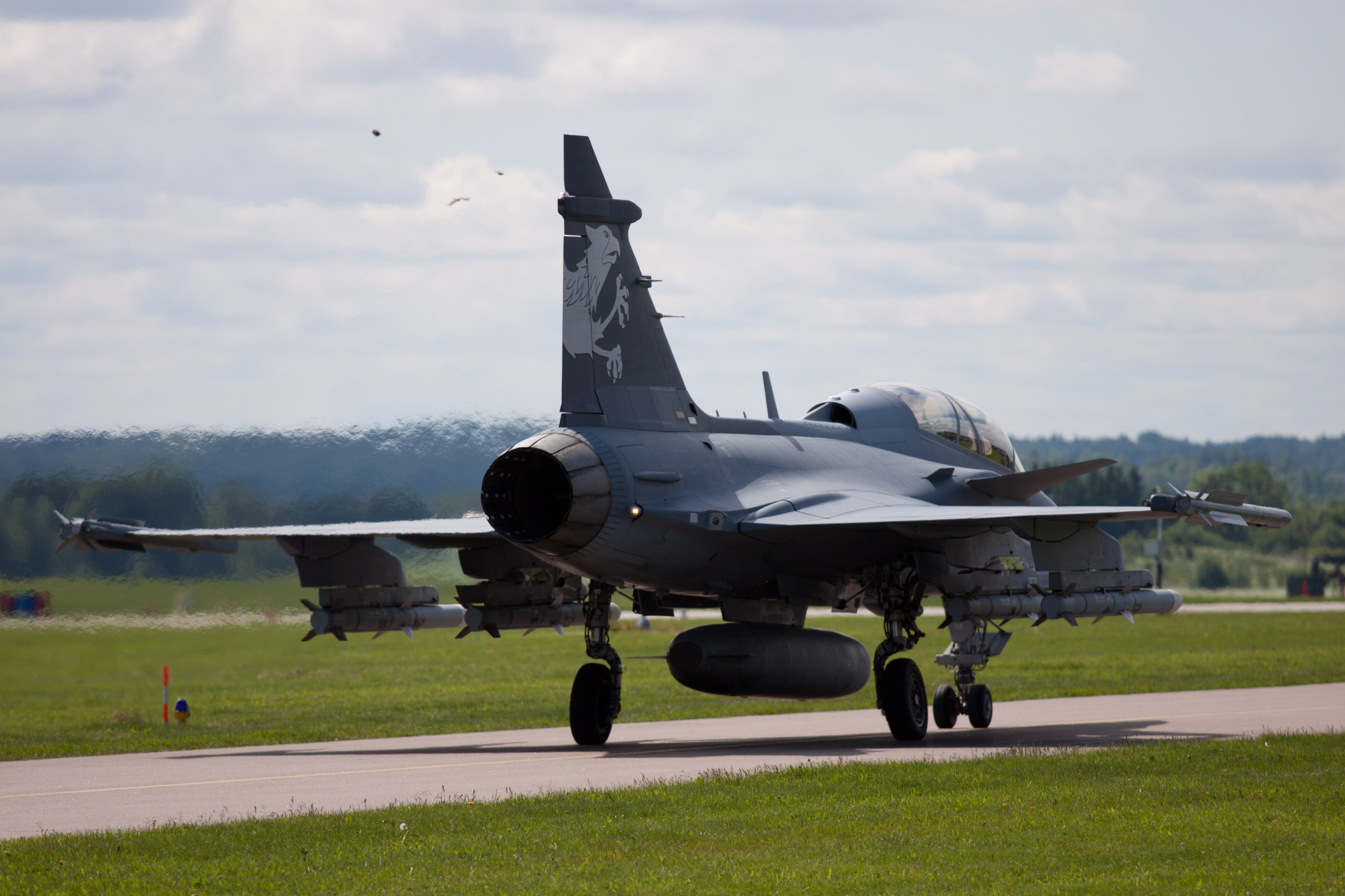 Saab JAS 39 Gripen NG in Sweden